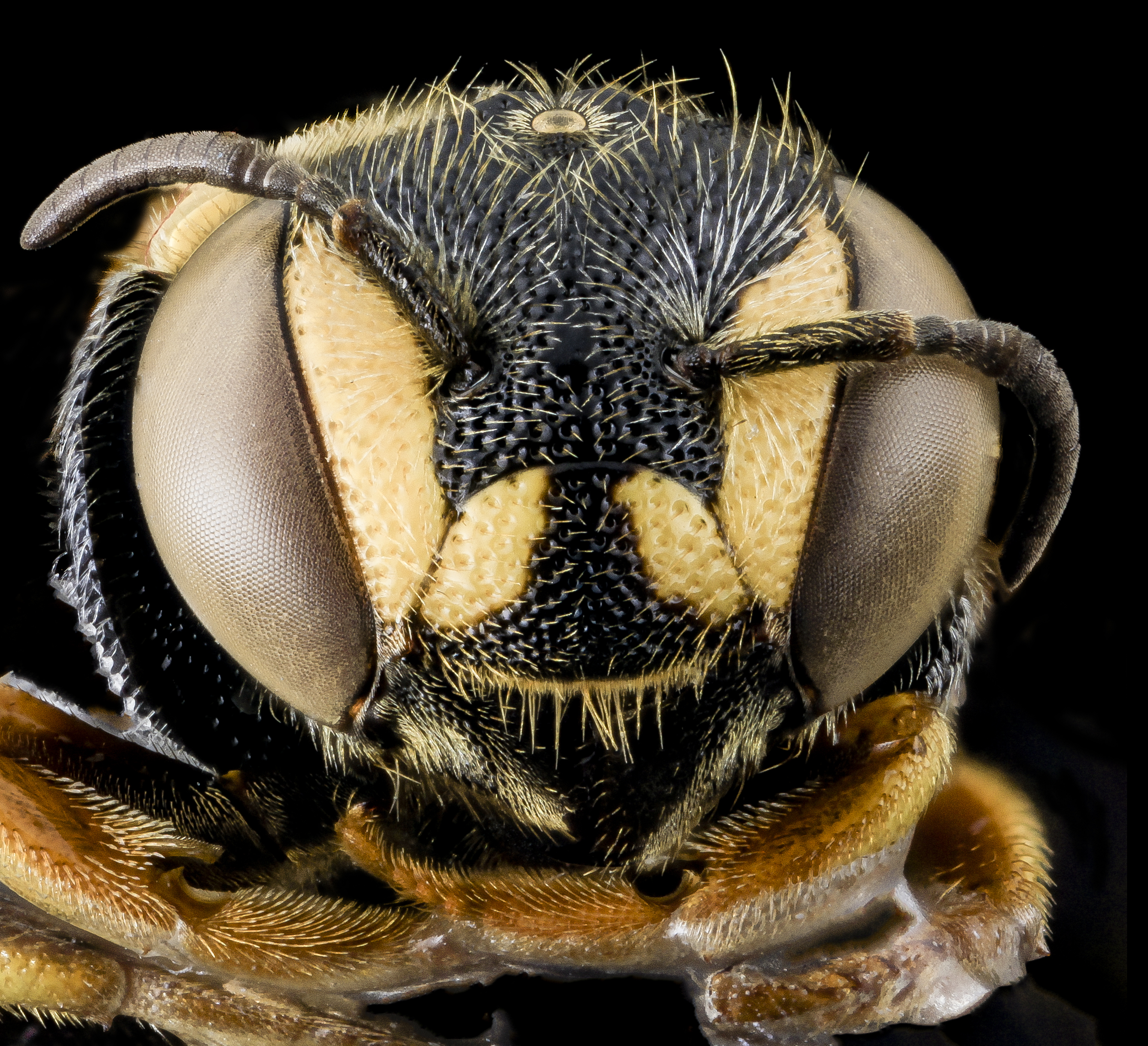 Head of an Anthidiellum notatum